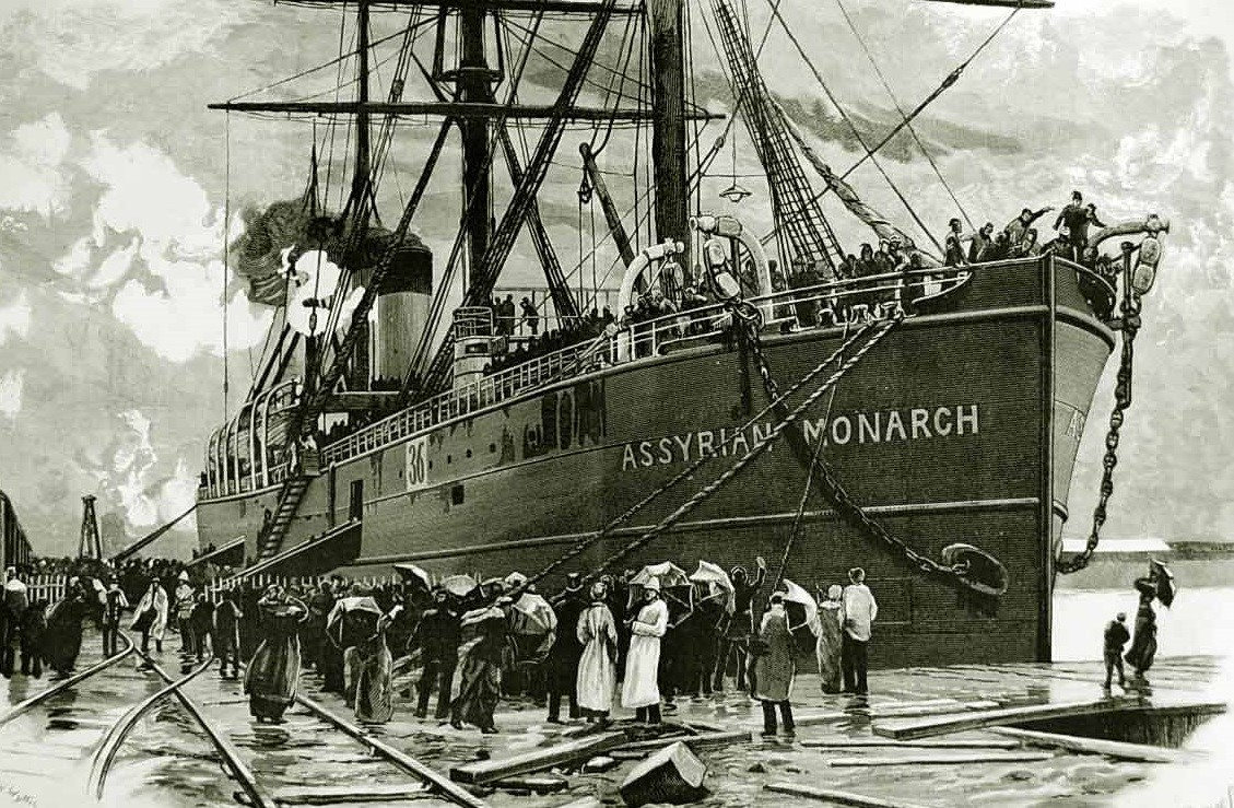 Assyrian Monarch 1882 from The Pictorial World newspaper.